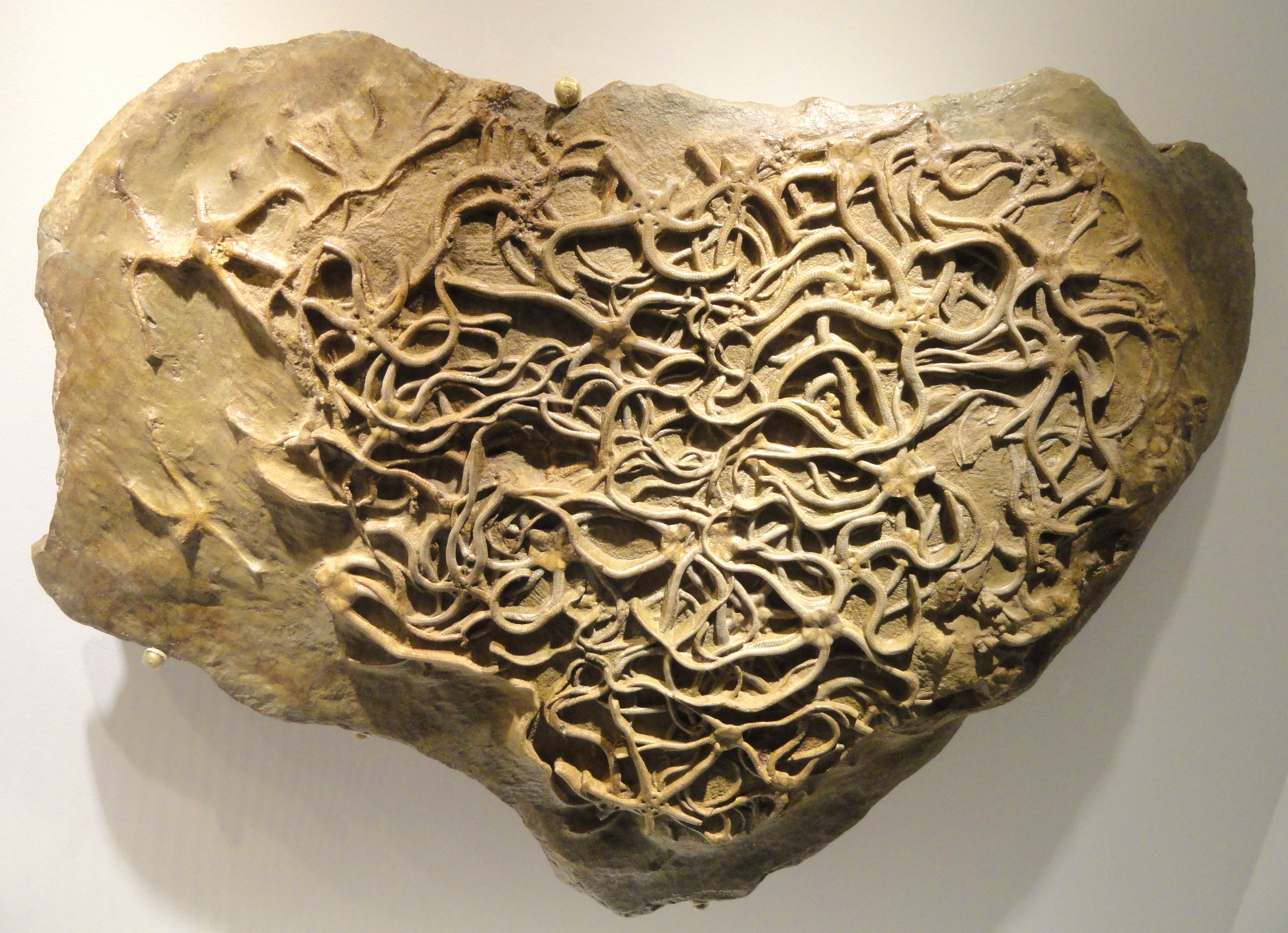 Exhibit in the Houston Museum of Natural Science, Houston, Texas, USA.